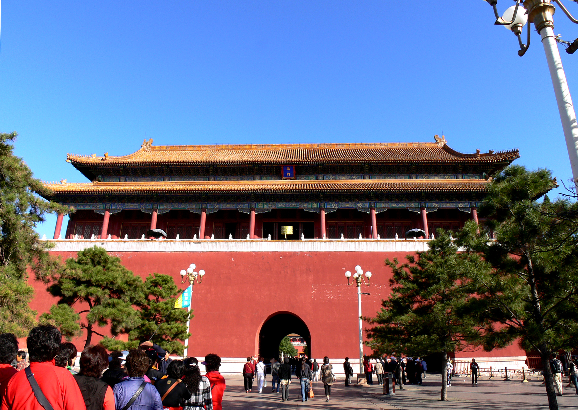 (view N) Gate of Uprightness